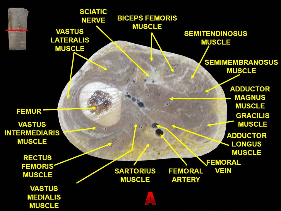 Anatomical dissection